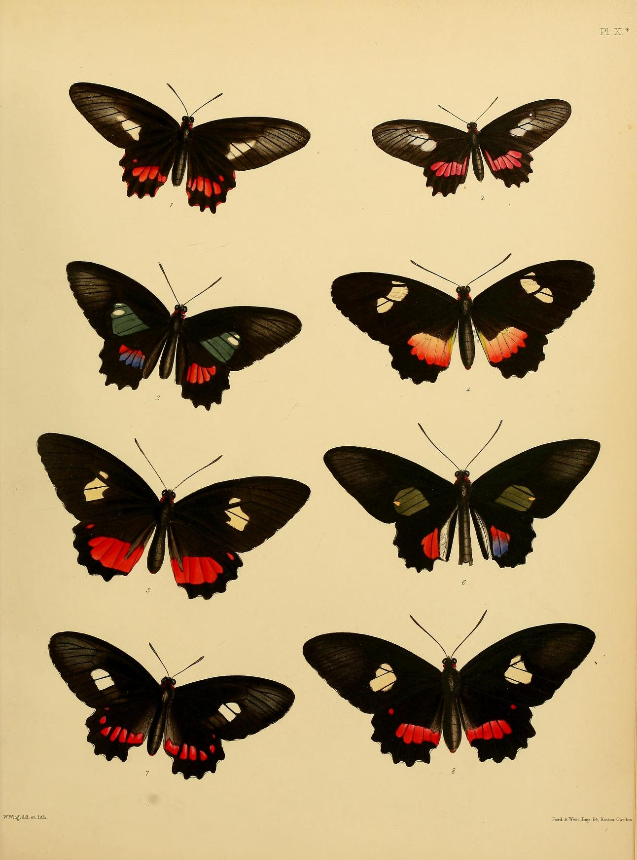 George Robert Gray 1853 1852 Catalogue of Lepidopterous Insects in the British Museum. Part 1. Papilionidae. [1853 Jan], "1852" iii + 84pp., 13pls. Plate 10 supplementary 1 Papilio Sonoria var. a female synonym for Parides lysander (Cramer, [1775]) ssp. parsodes (Gray, [1853]) 2 Papilio Hierocles male synonym for Parides anchises (Linnaeus, 1758) ssp. thelios (Gray, [1853]) 3 Papilio Hippason var. b female synonym for Papilio hyppason Cramer, [1775]? 4 Papilio Panares female synonym for Parides panares (Gray, [1853]) 5 Papilio Aglaope male synonym for Parides aglaope (Gray, [1853]) 6 Papilio Aglaope female synonym for Parides aglaope (Gray, [1853]) 7 Papilio Bolivar Hewits. female synonym for Parides aeneas (Linnaeus, 1758) ssp. bolivar (Hewitson, 1850) 8 Papilio Cymocles D. male synonym for Parides anchises (Linnaeus, 1758) ssp. cymochles (Doubleday, 1844)